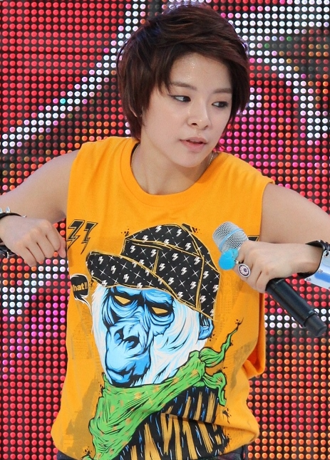 Amber Liu at the M Super Concert on July 28, 2012.